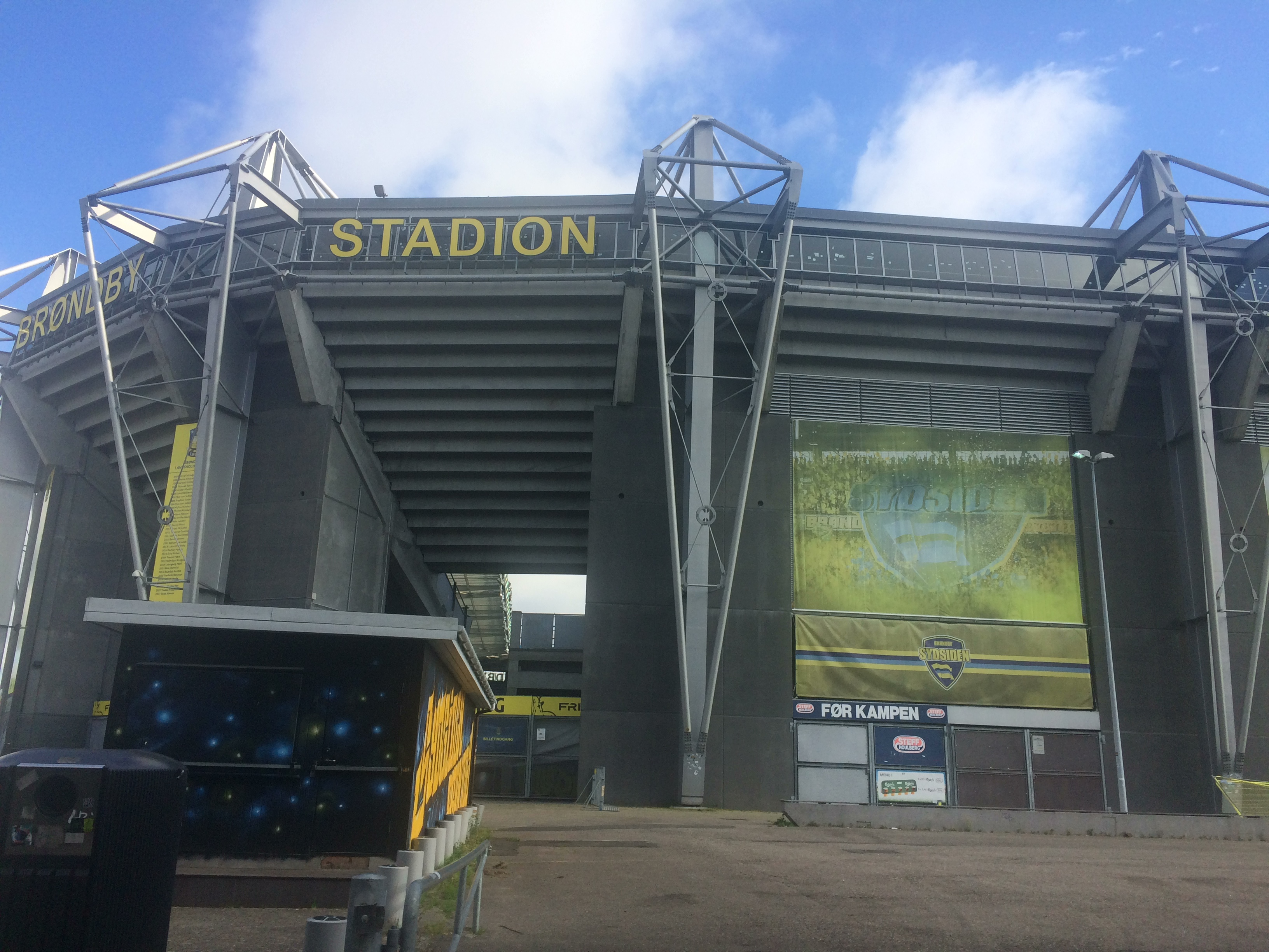 Brøndby Stadium seen from outside, with the entrance to "Sydsiden"